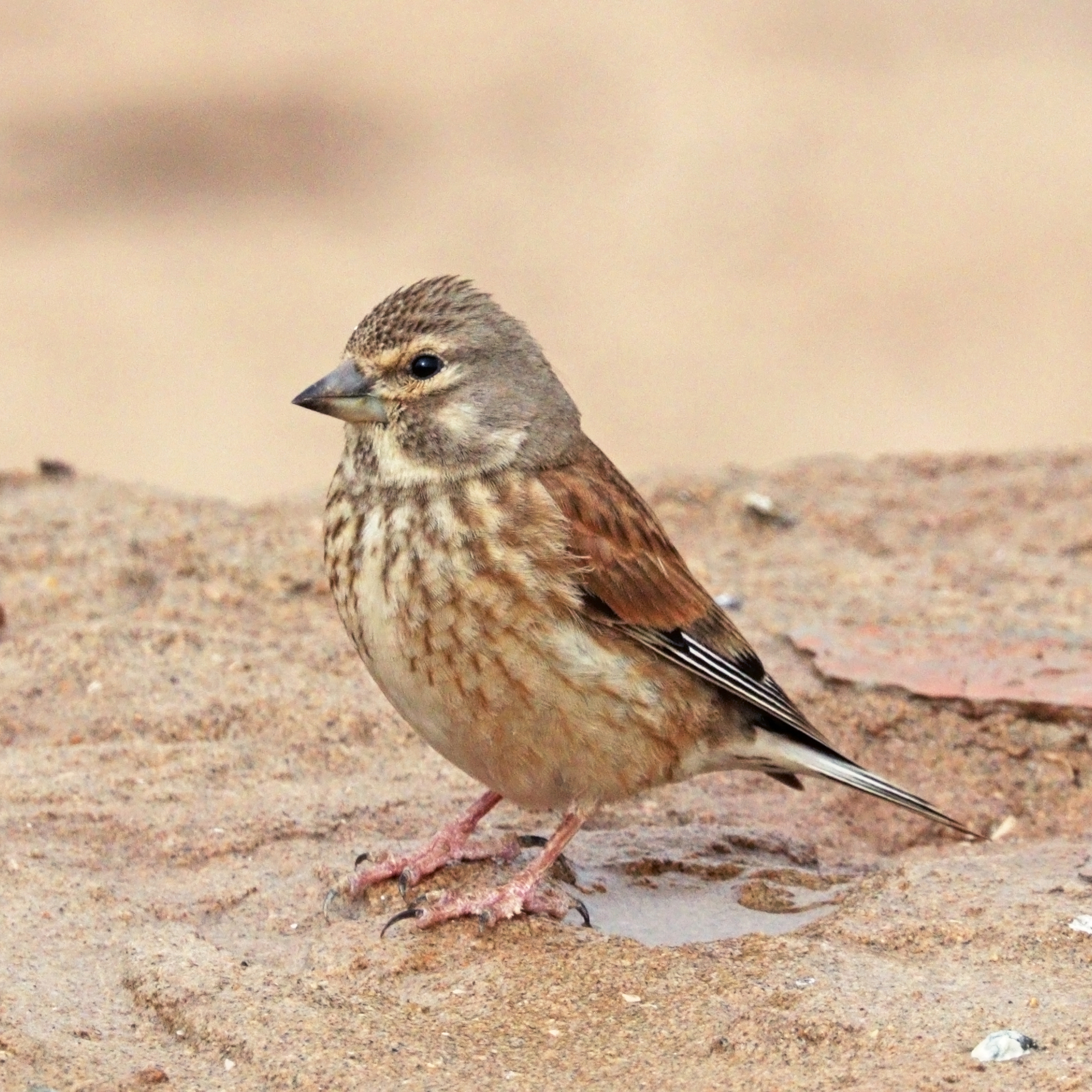 Common linnet (Linaria cannabina mediterranea) juvenile, Souss-Massa National Park, Morocco